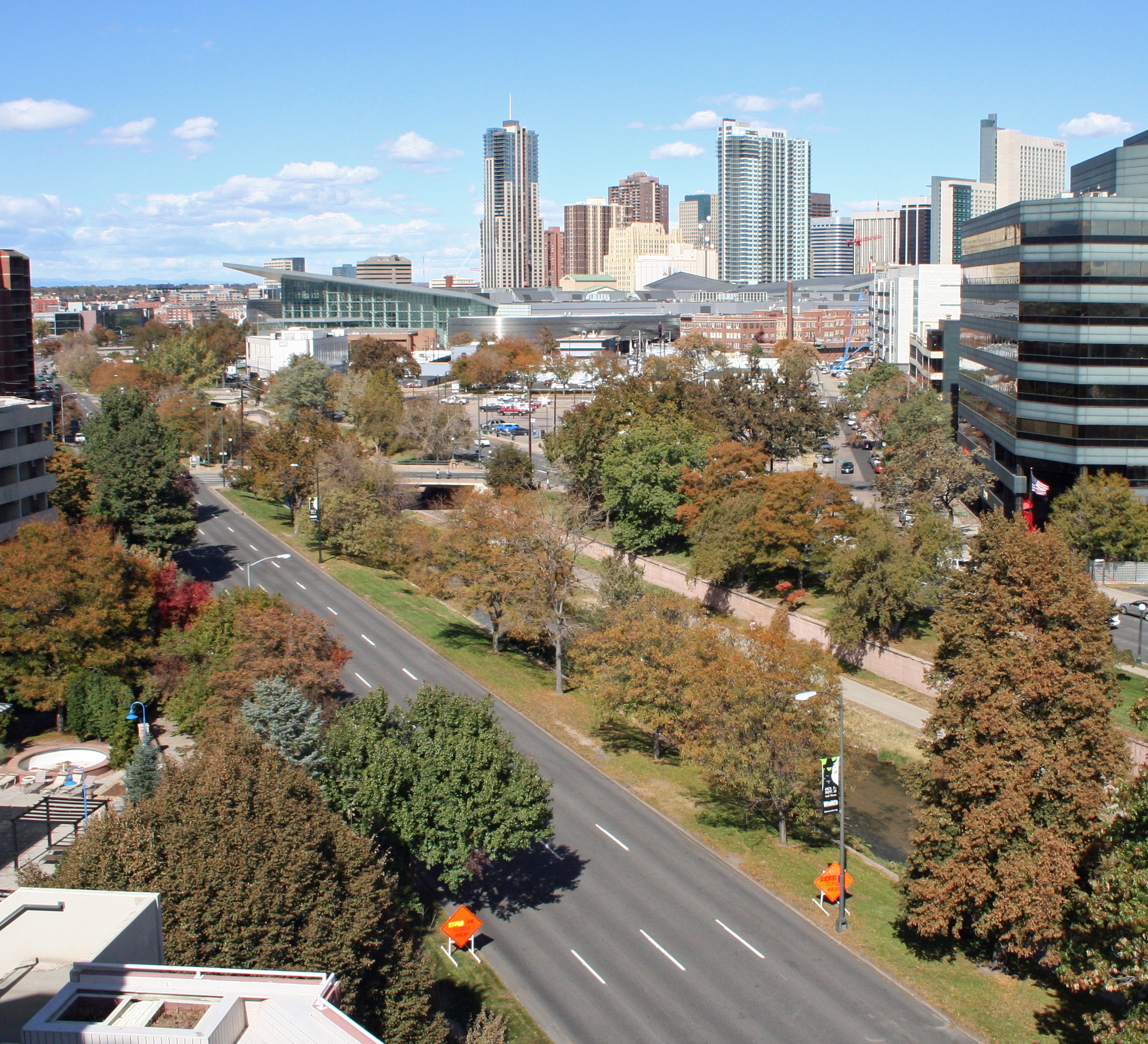 Speer Boulevard in Denver, Colorado. The southbound lanes are on the left; the northbound lanes are on the right. Also visible in the picture is Cherry Creek, the Cherry Creek Bike Trail, and the Colorado Convention Center. The street that goes over the bridge above the center of the picture is 13th Avenue.